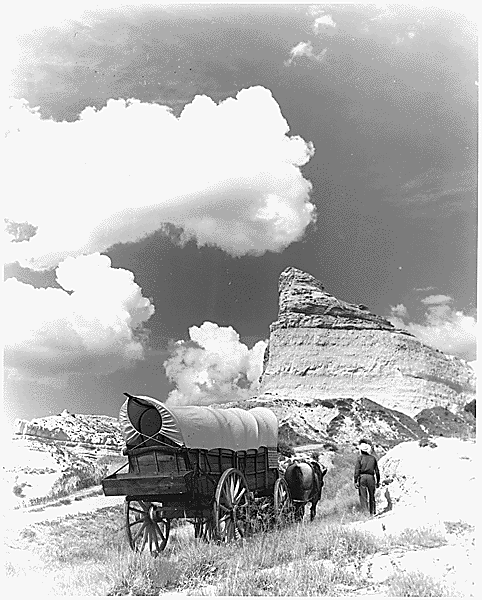 Oregon trail reenactment with typical Conestoga wagon in Scotts Bluff, Nebraska in 1961.